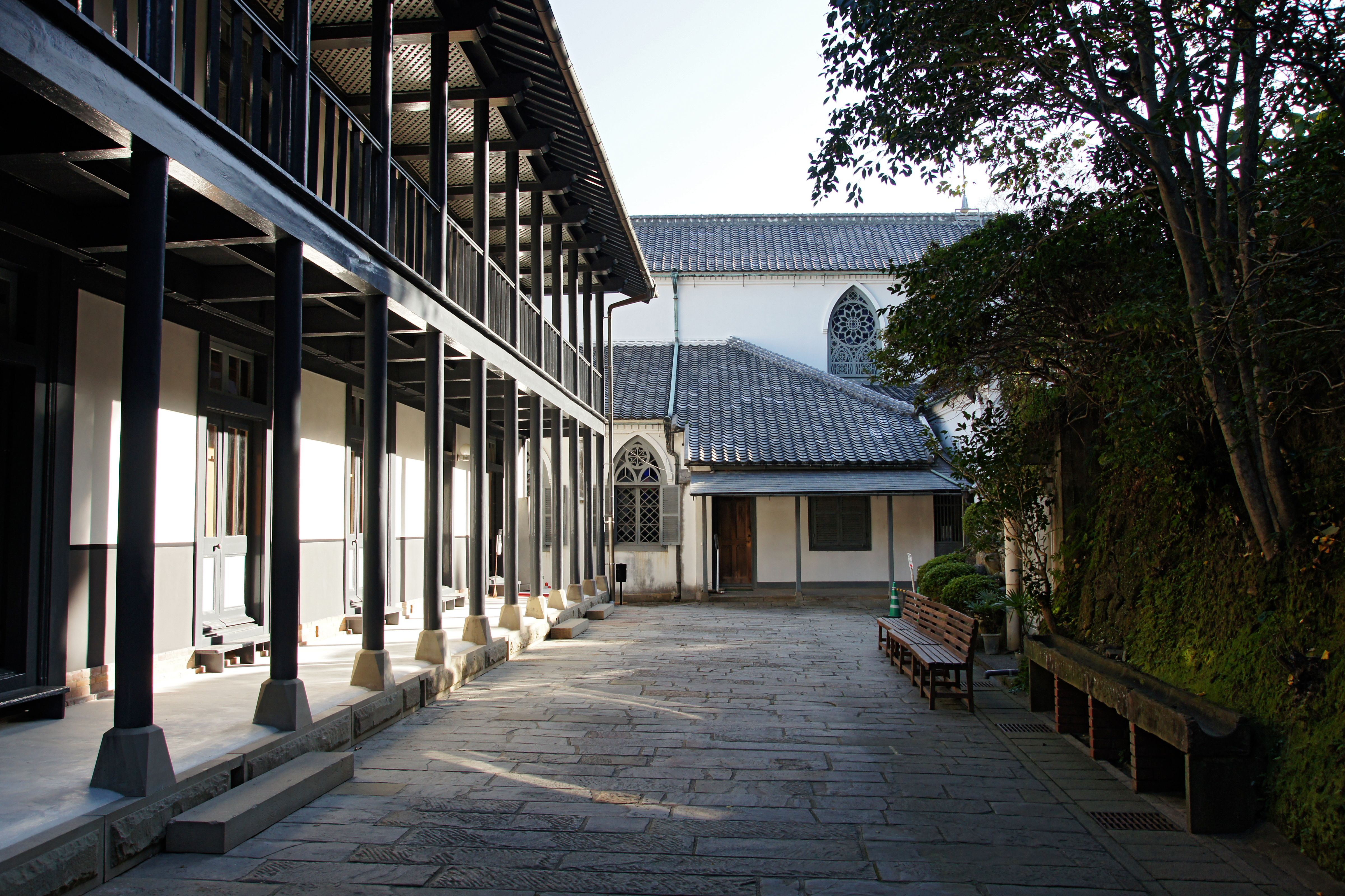 Former Latin Divinity School in Nagasaki, Nagasaki prefecture, Japan